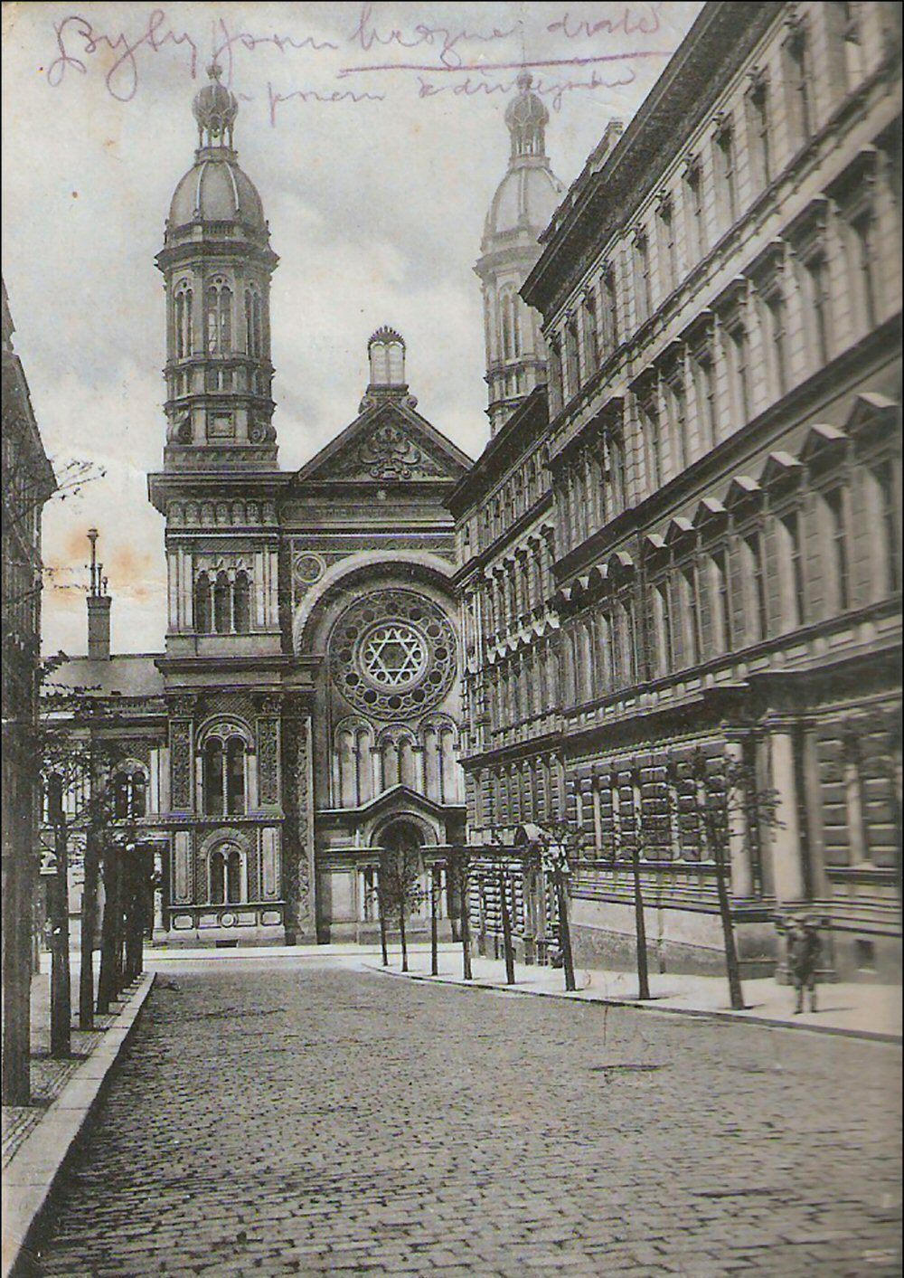 View of the Vinohrady synagogue on a vintage postcard